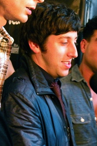 Simon Helberg